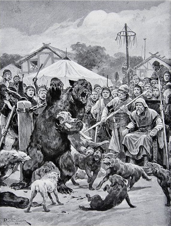 Bear Baiting in Saxon Times